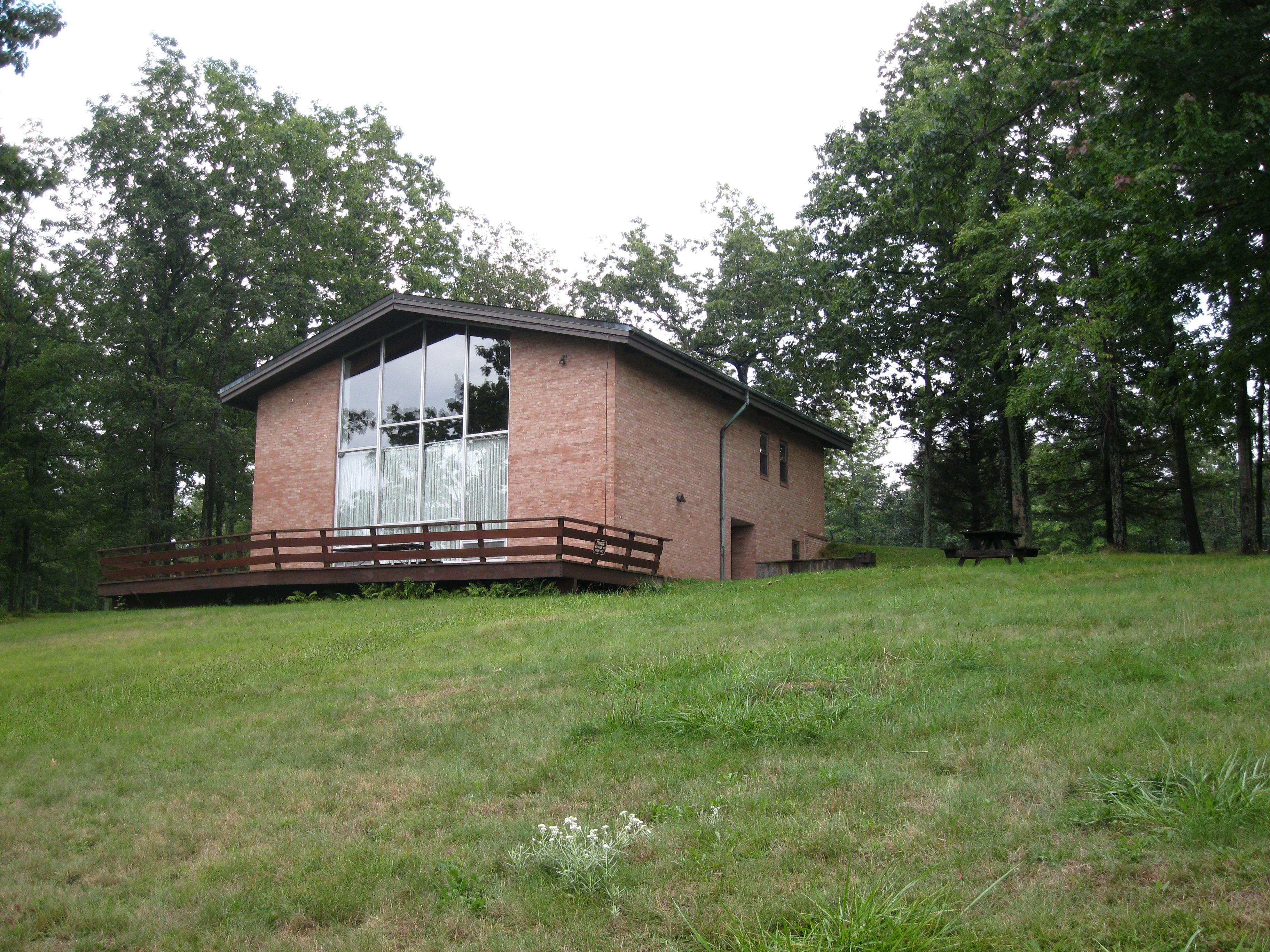 Former ski lodge (from the ski slope side) at Black Moshannon State Park, near Phillipsburg, Rush Township, Centre County, Pennsylvania, USA. Now can be rented as Cabin 20